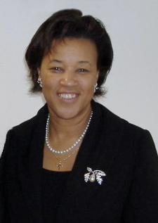 I took this picture myself in November 2005 with my own camera. It's posted nowhere else online.